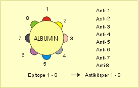 Eight epitopes on an antigen molecule